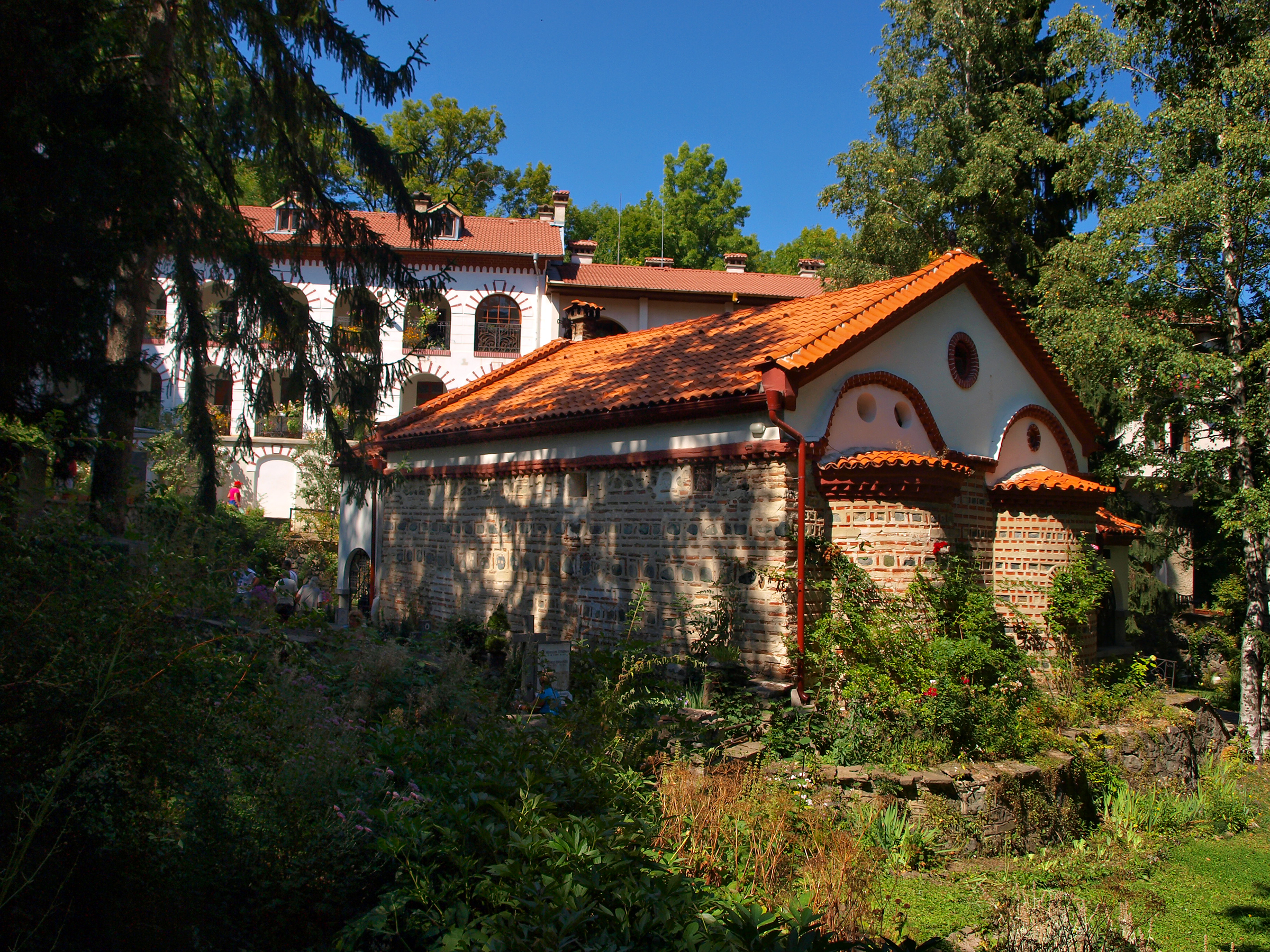 Main church of the Dragalevtsi Monastery: apse/side view